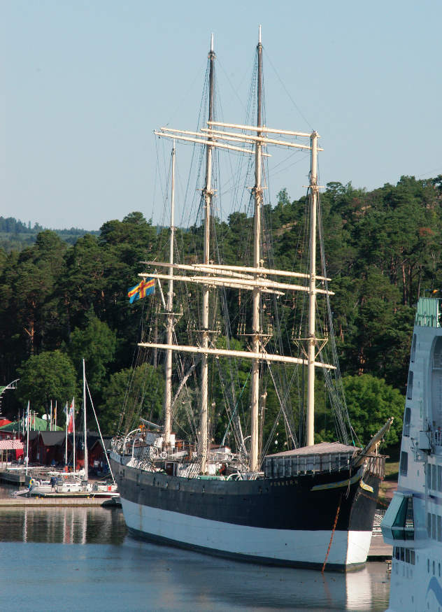 ex Flying P-Liner POMMERN as a museum ship in the harbour of Mariehamn, Åland.